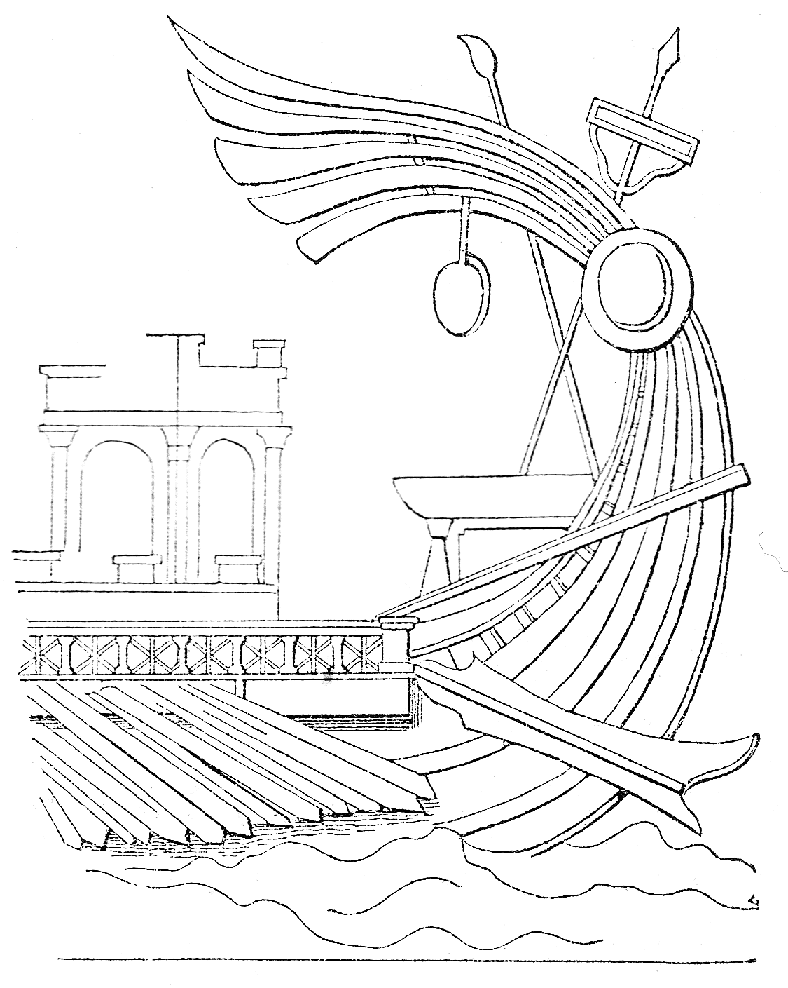 Illustration from Illustrerad verldshistoria utgifven av E. Wallis. (Volume I): Stern of a Roman (?) war galley (trireme) drawn from a relief at the Palazzo Spada in Rome (Anderson, 1962 Oared fighting ships, plate 4)